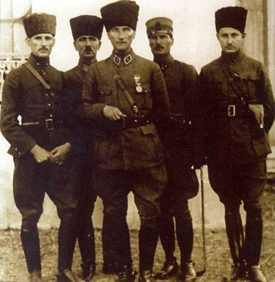 Şükrü Ali, Salih, Mustafa Kemal, İsmail Hakkı and Muzaffer at Izmit